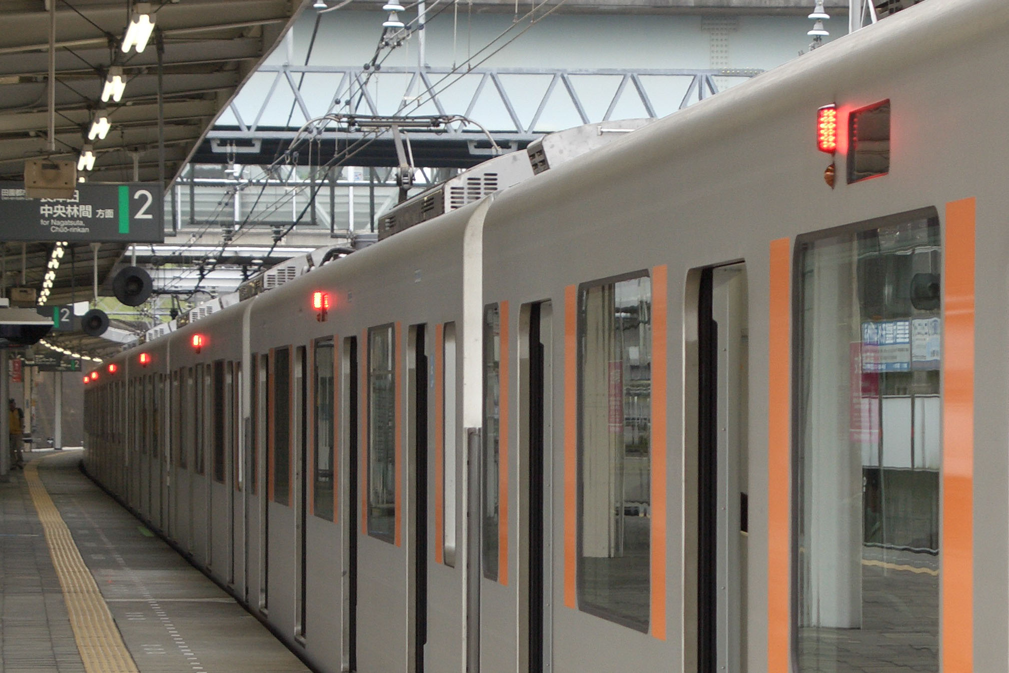 Description（説明）: Railway Car side pilot lamp（鉄道の車側表示灯） Source（出典）: Tokyu Den-en-toshi line Saginuma Station（東急田園都市線 鷺沼駅） Photographer（制作者）: yaguchi（矢口） Date（製作日）: 2006-10-21